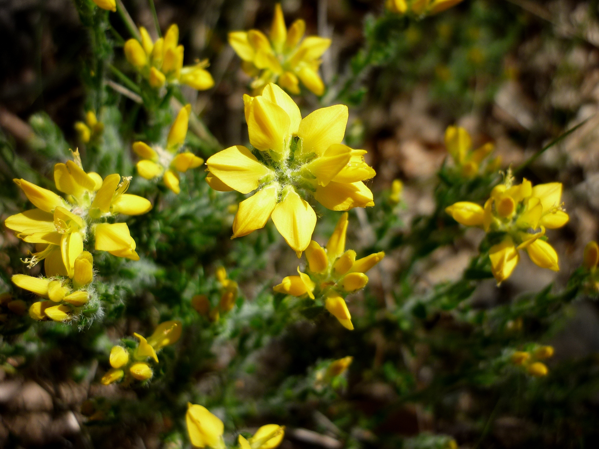 Genista hispanica. In Torà (Segarra-Catalunya). To 590 m. altitude